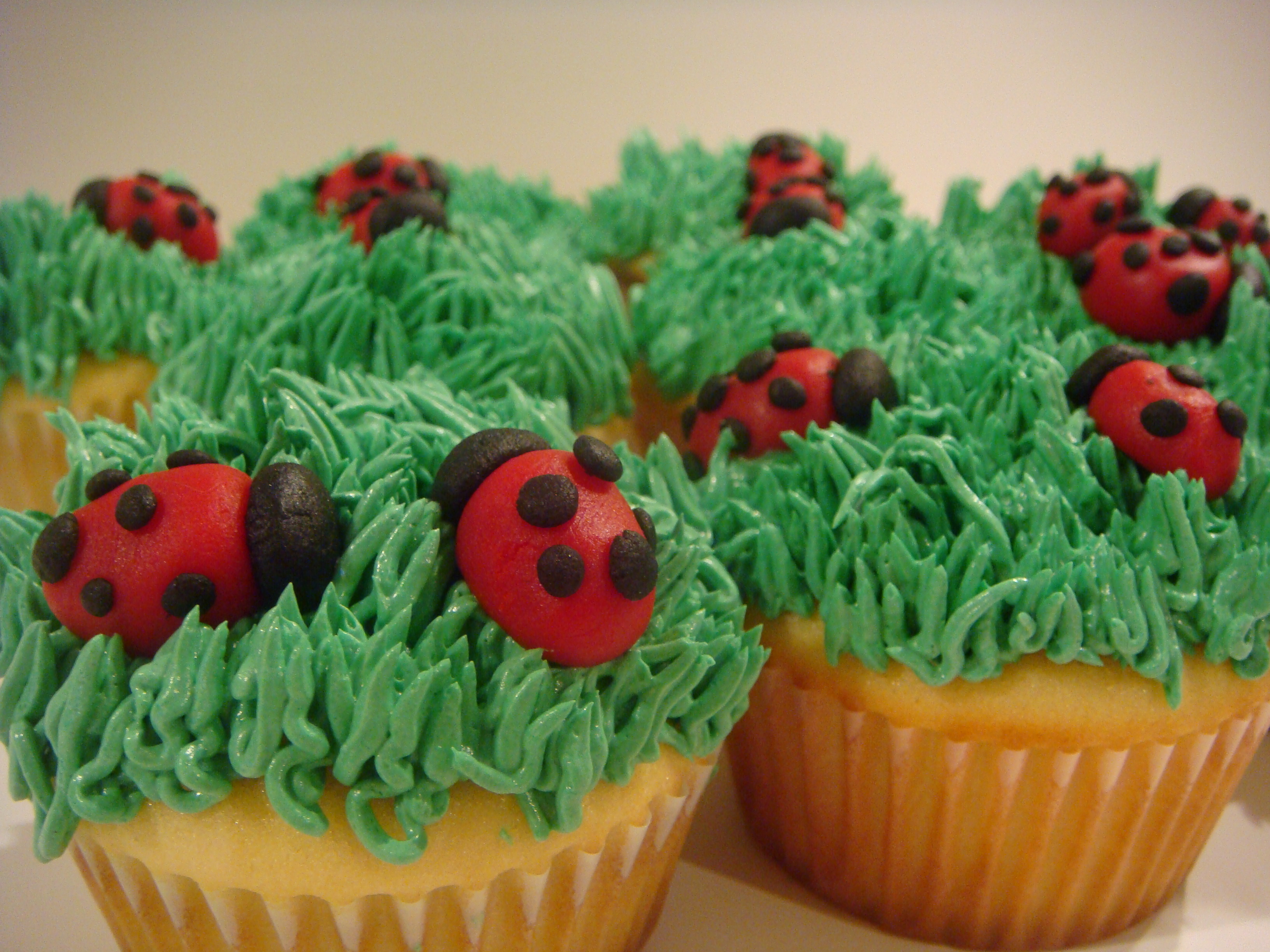 Delicious Dishings: Ladybug Cupcakes (And Some News)